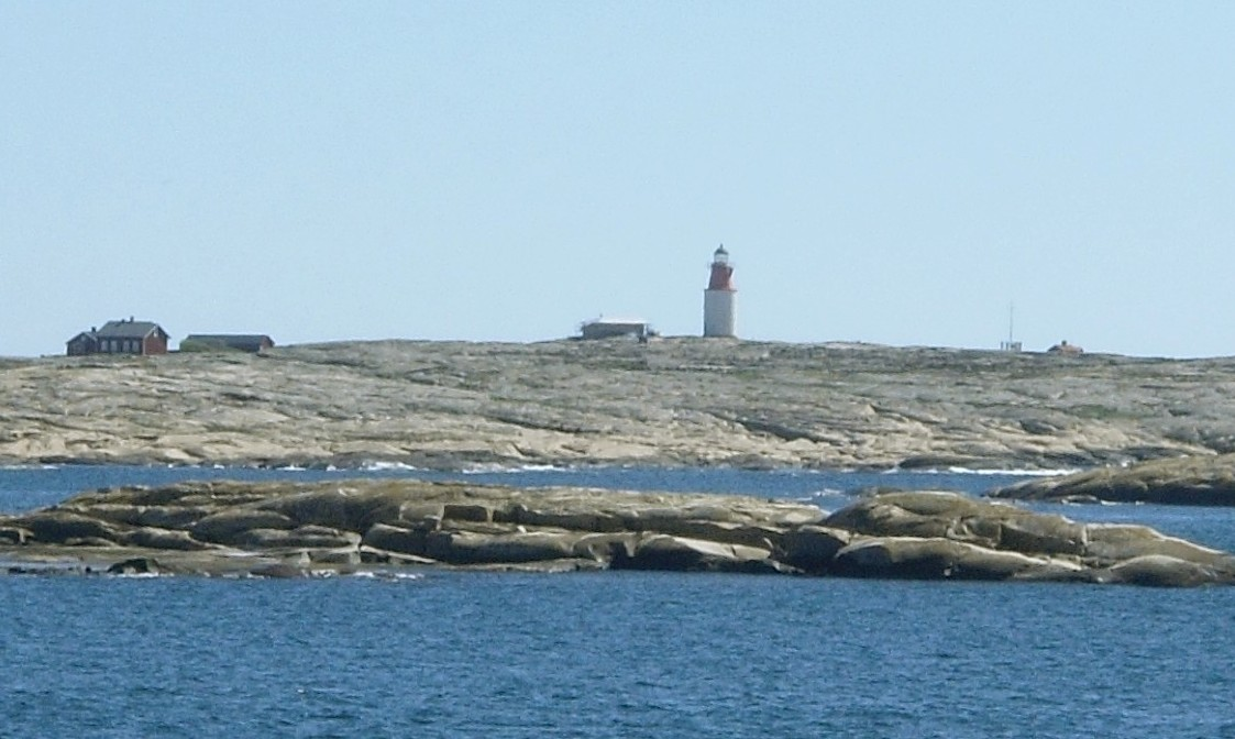 The lighthouse om the island Hållö at the western coast of Sweden